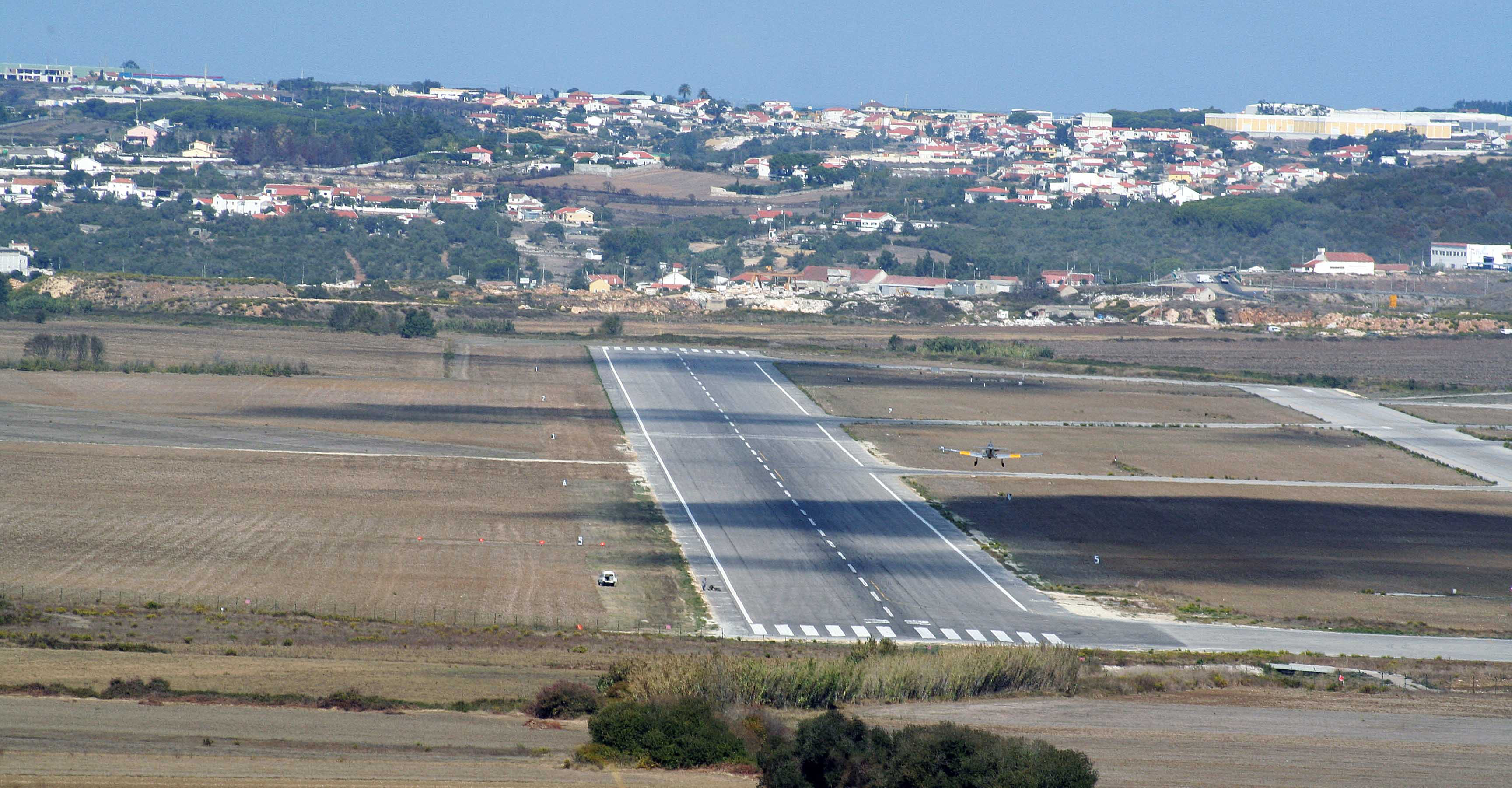 Description Portuguese Air Force Academy Instrution airplane -Chipmunk MK20